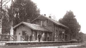 Snarum Station on the Krøder Line in Norway.